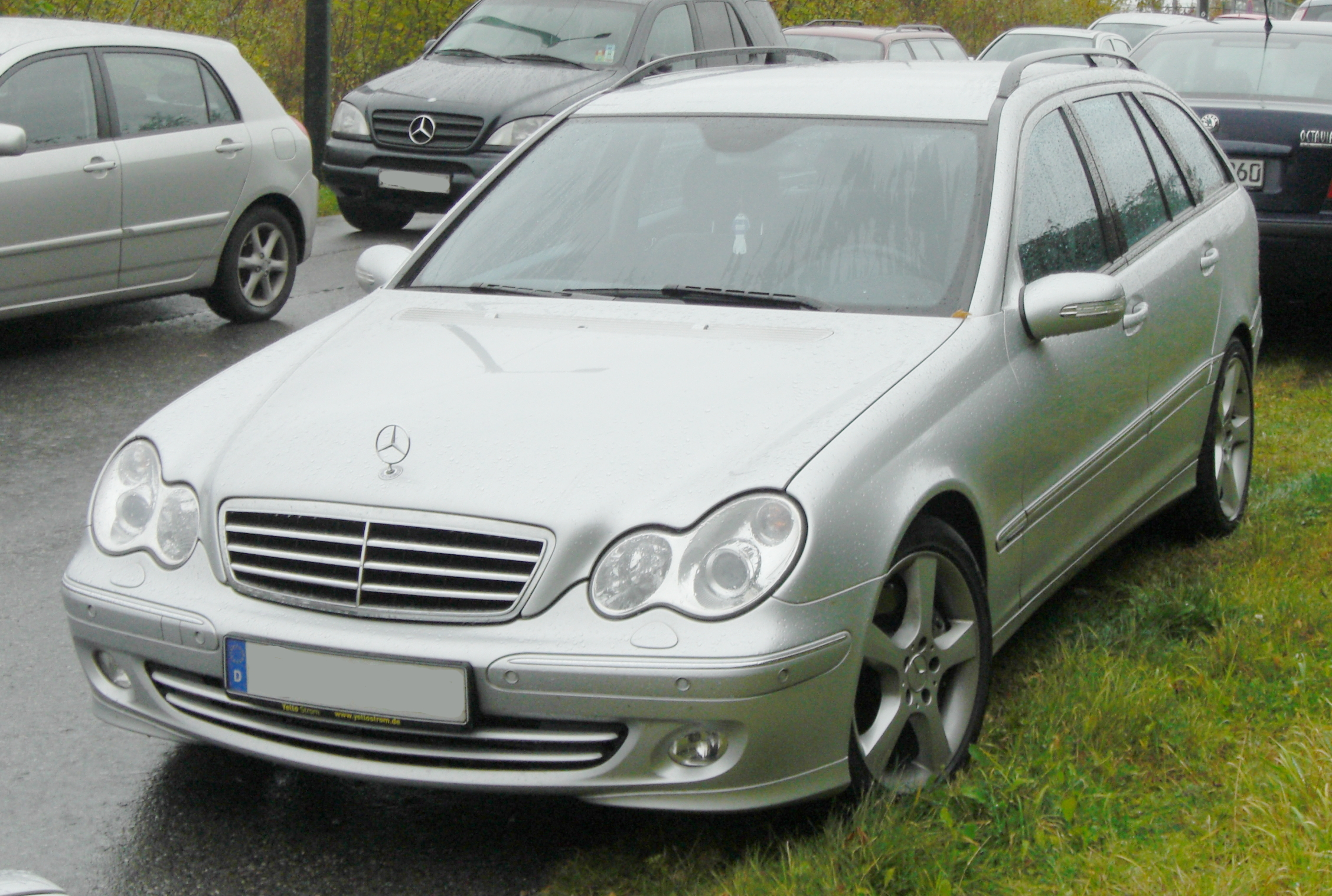 Description: Mercedes C-Klasse T-Modell Facelift Avantgarde Source: Matthias Other Version(s)